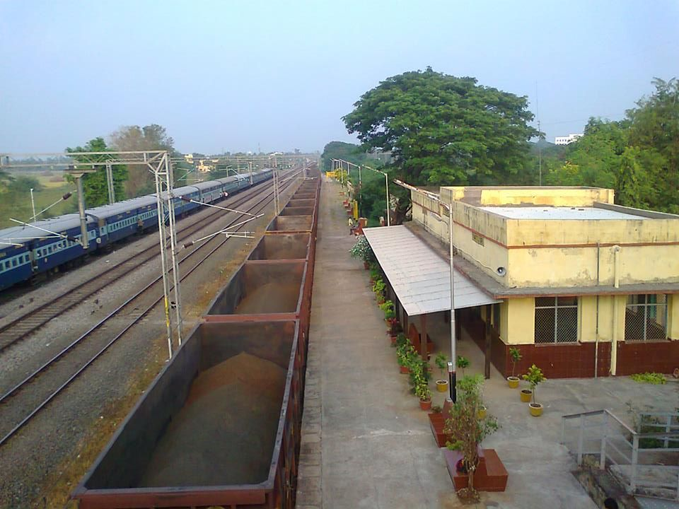 Vatlur Railway Station, Eluru, West Godavari